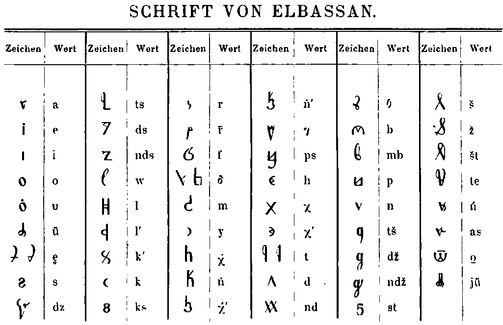 Alphabet used during the XIX century in Elbasan, Albania. Created by an unknown author who signed himself "Anonimi i Elbasanit"